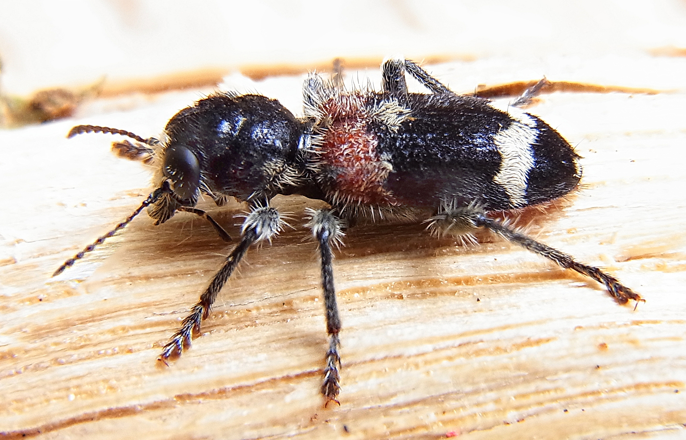 Clerus mutillarius from France, northwest of Montbeliar at 2011-07-19